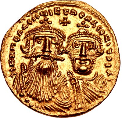 Heraclius, with Heraclius Constantine. 610-641. AV Solidus (19mm, 4.35 g, 6h). Constantinople mint, 7th officina. Struck 629-632. Crowned and draped facing busts of Heraclius and Heraclius Constantine; cross above